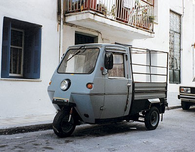 I took this picture of a MEBEA 206 light truck in Patras in 1994.